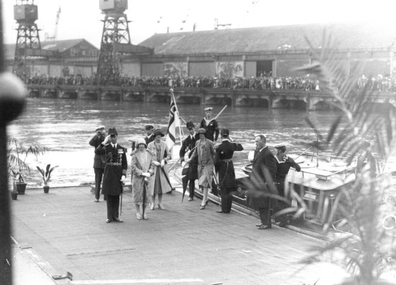 Description: 1927 Royal Tour (Duke & Duchess of York) - Admiralty steps, Auckland Photographer: Unknown Date: 1927 Our reference: AAQT 6539 A1571 This photo is from Archives New Zealand's National Publicity Studio's collection. The National Publicity Studio was established in 1945, but its beginnings can be traced back to the establishment in 1924 of a Publicity Office - part of the Department of Internal Affairs. The emphasis of this Publicity Office was on films, photographs and booklets. The purpose of the National Publicity Studio was to provide advice to government departments and state agencies on the provision of photographic, art, and display services and in particular to assist in the production of publicity material aimed at conveying a favourable image of New Zealand.